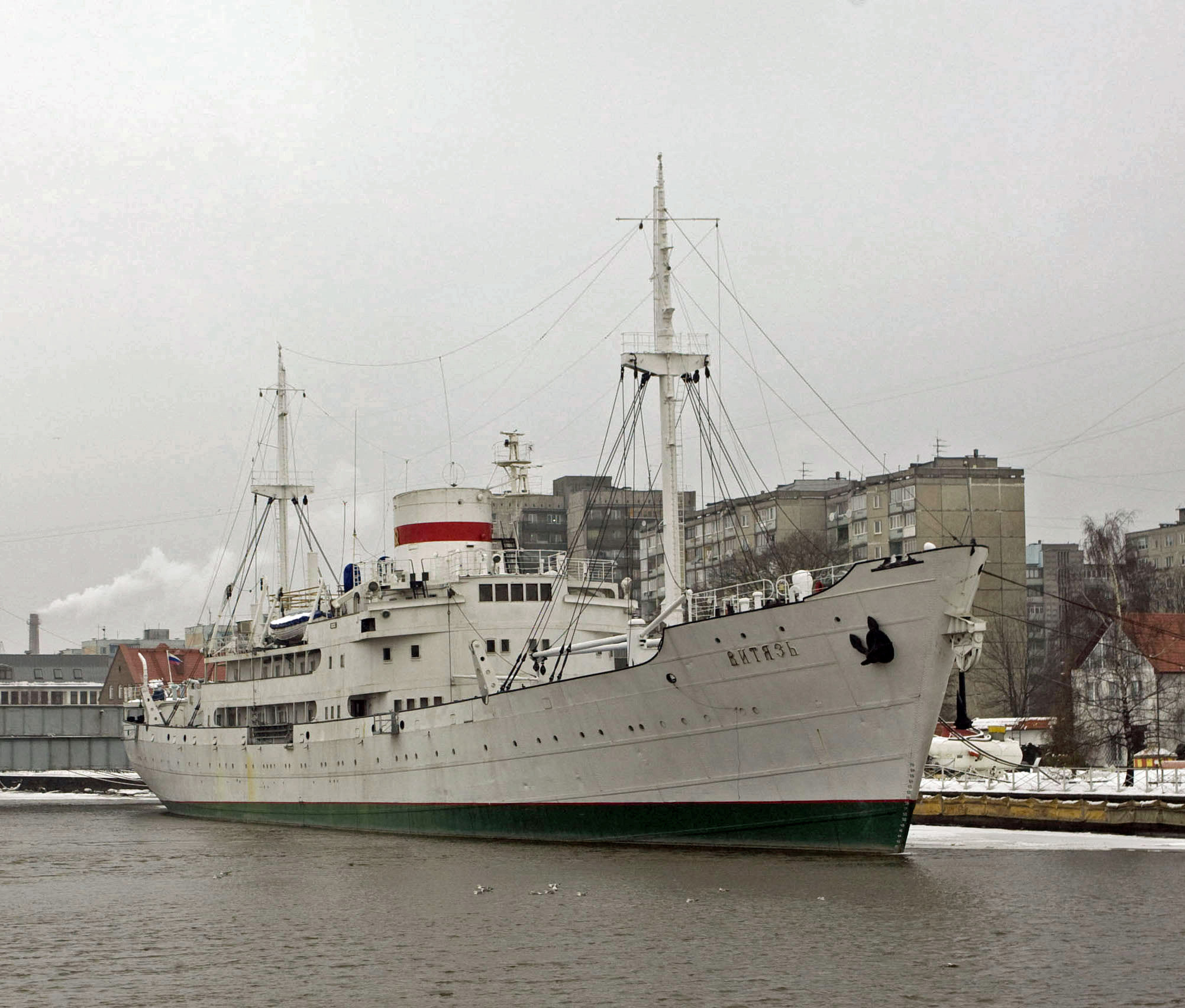 Reasearh vessel Vityaz in Kaliningrad "Museum of world ocean"